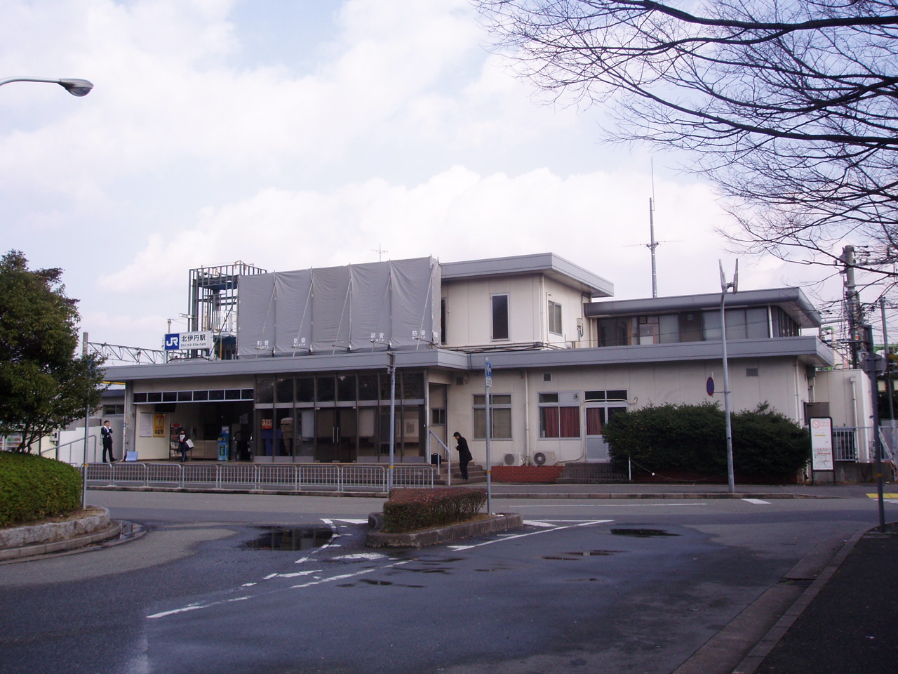 West Japan Railway Kita-Itami Station 西日本旅客鉄道 北伊丹駅